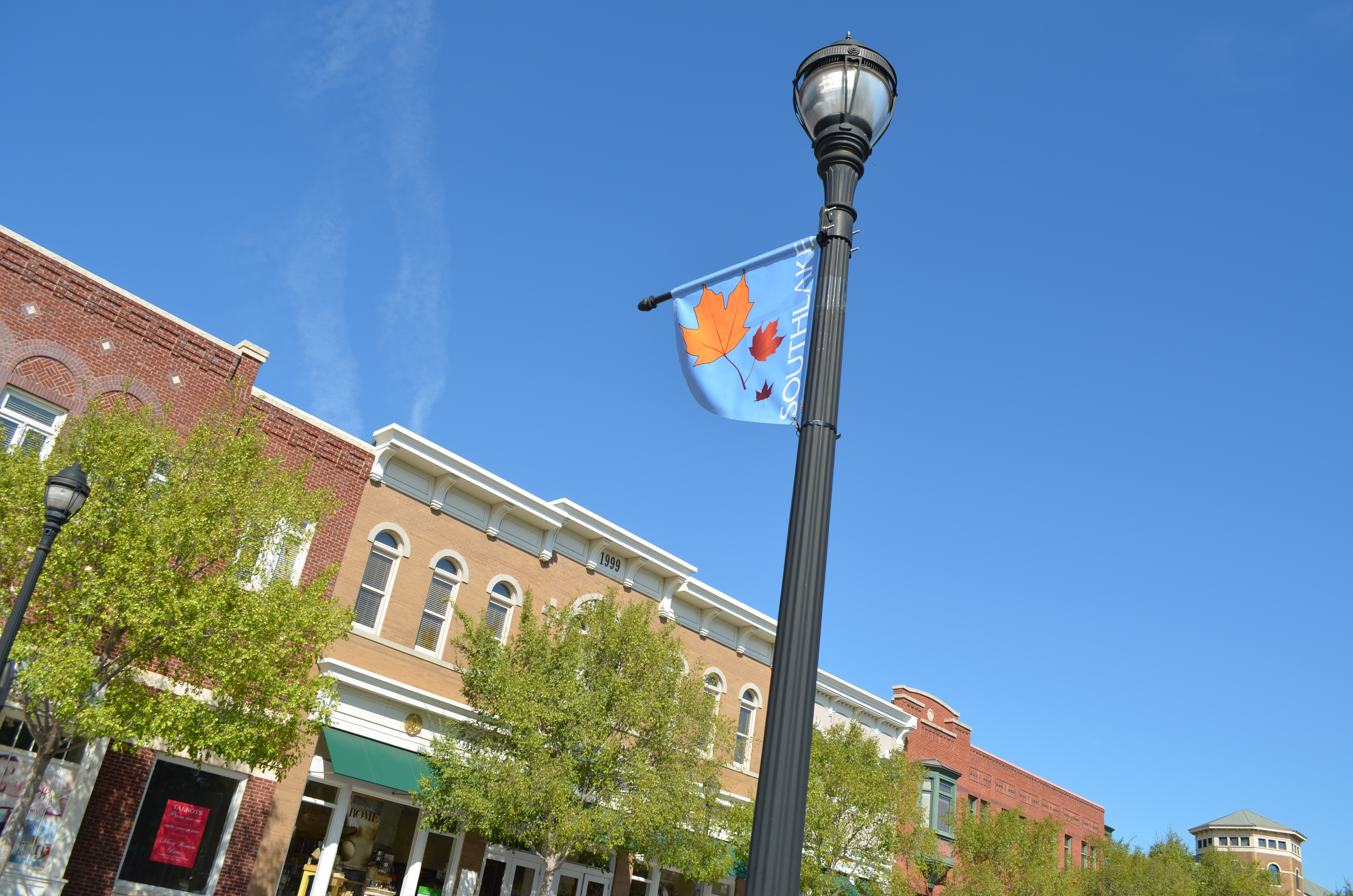 photos are free to use with link and credit to